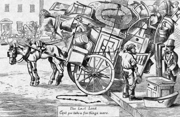 Cartoon depicting Moving Day (May 1) in New York City in 1869